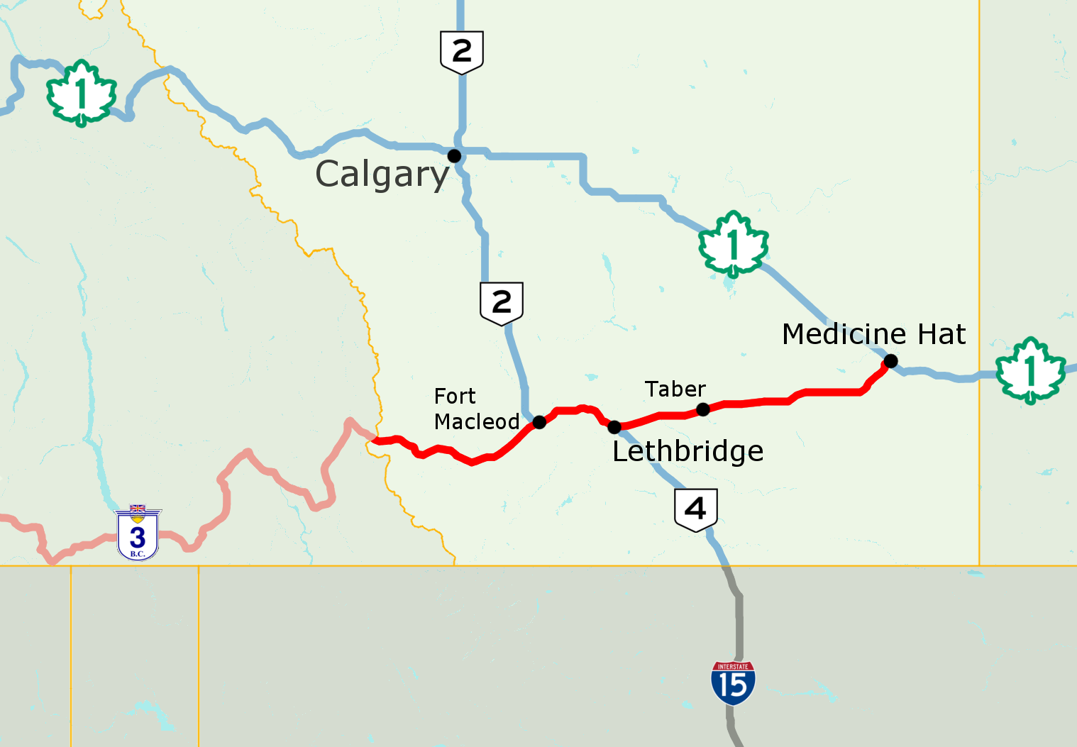 Map of Alberta Highway 3(Crowsnest Highway) in southern Alberta, Canada.